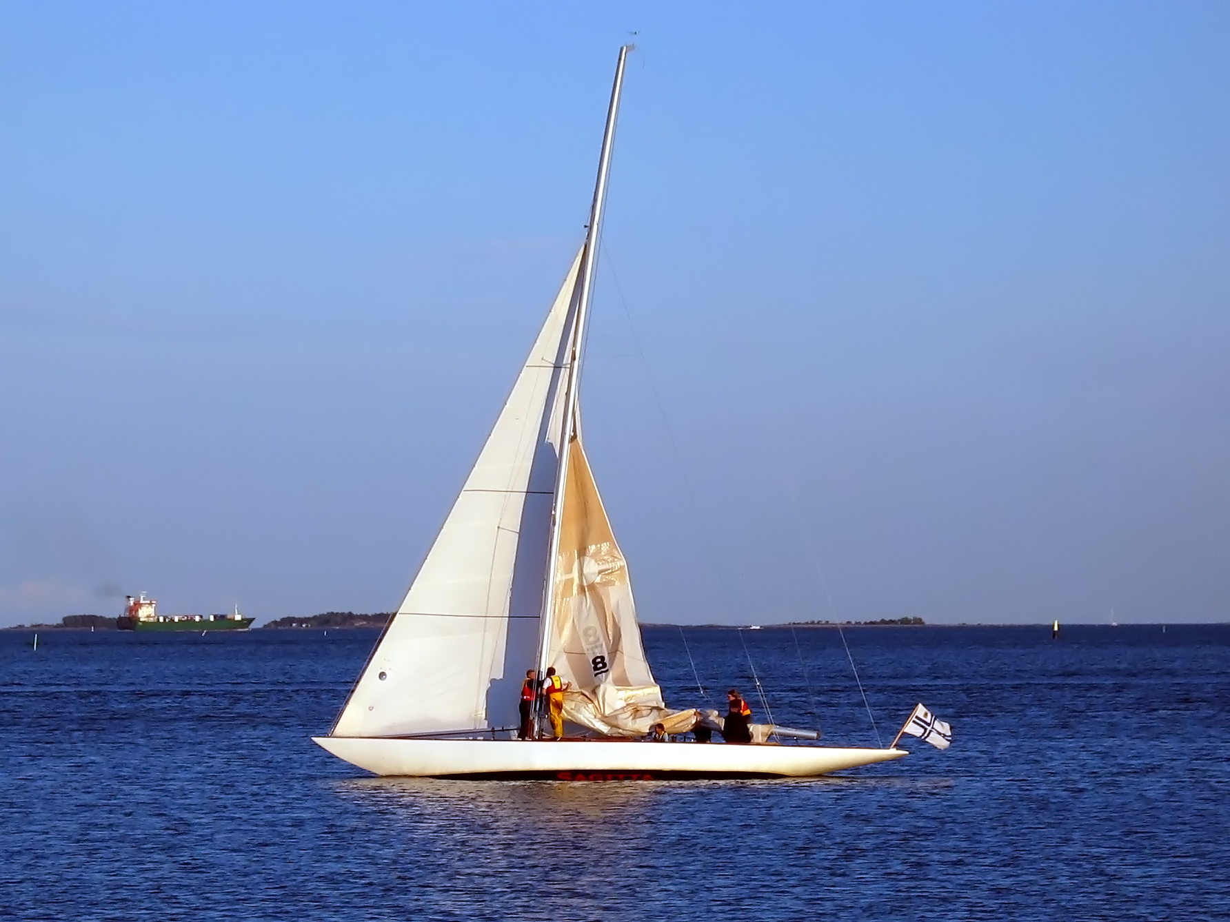 Sailing in front of Helsinki, Finland. 8mR Sagitta (Camper & Nicholson 1929), a true sailboat with no motor, lowers its mainsail after a training session before returning to its mooring with the headsail only.